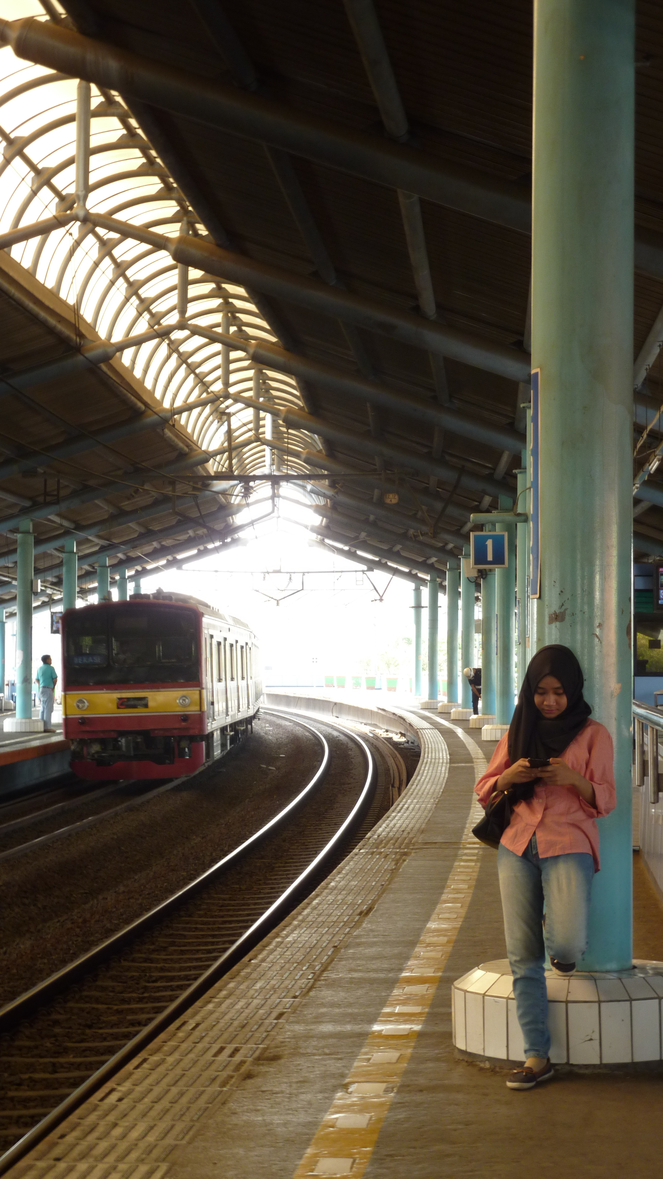 A passenger waiting for train in Juanda Station, September 2015.